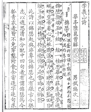 the image of a book of Li Shangyin